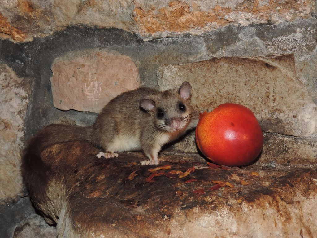 Edible dormouse